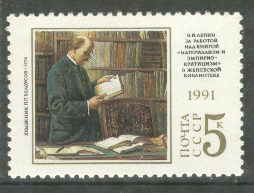 Stamp of the Soviet Union, 1991. 121st anniversary of the Lenin's birth. Lenin in the Geneva Library (the last Soviet stamp showing Lenin). CPA #6313.